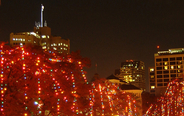 I used my digi camera for this one.